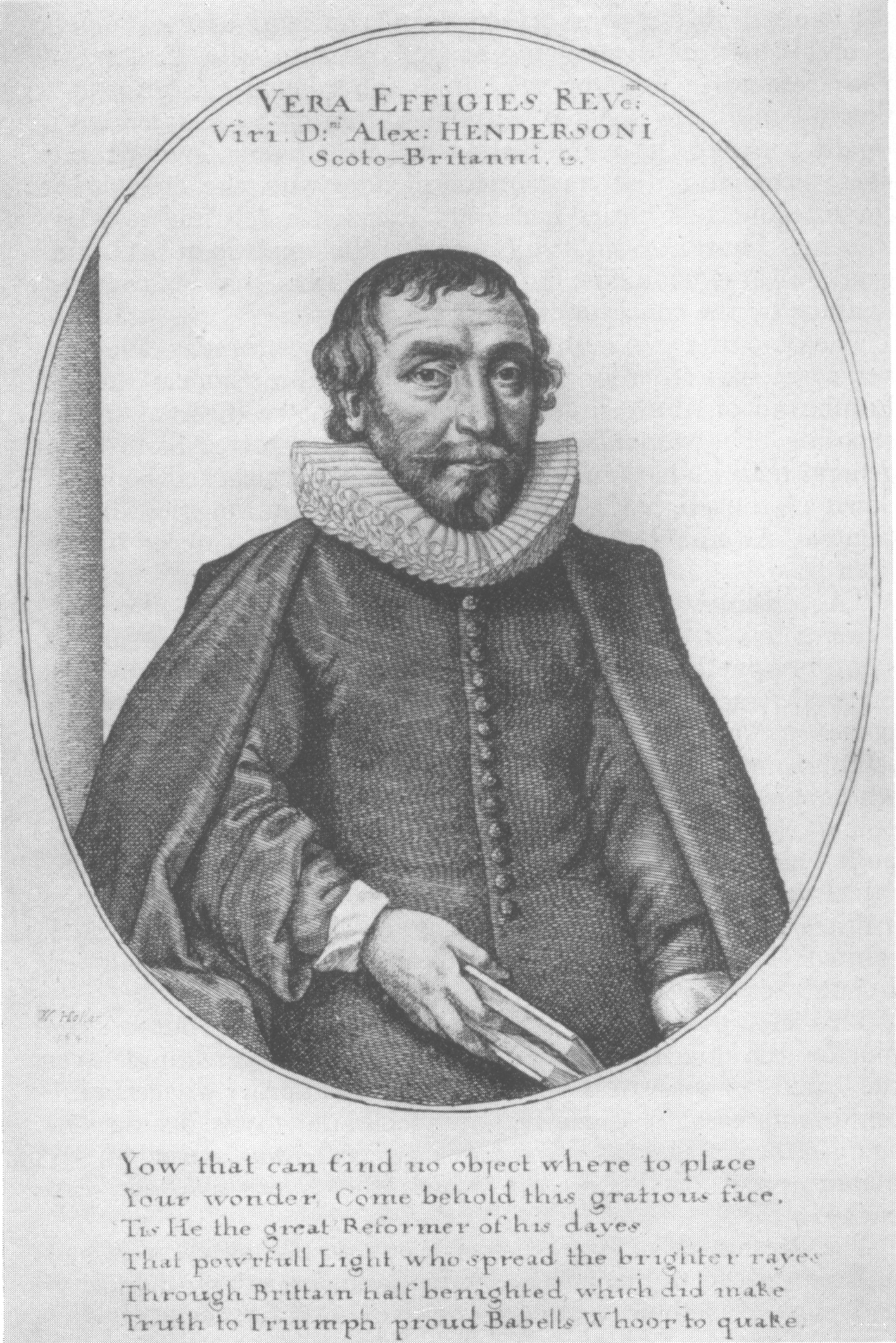 Alexander Henderson, Moderator of the General Assembly, 1638 Yow that can find no object where to place Your wonder, Come behold this gratious face. Tis He the great Reformer of his dayes That pow'rfull Light who spread the brighter rayes Through Brittain half benighted, which did make Truth to Triumph, proud Babells Whoor to quake.